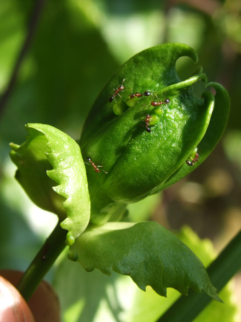 Passiflora, Extra Floral Nactaries